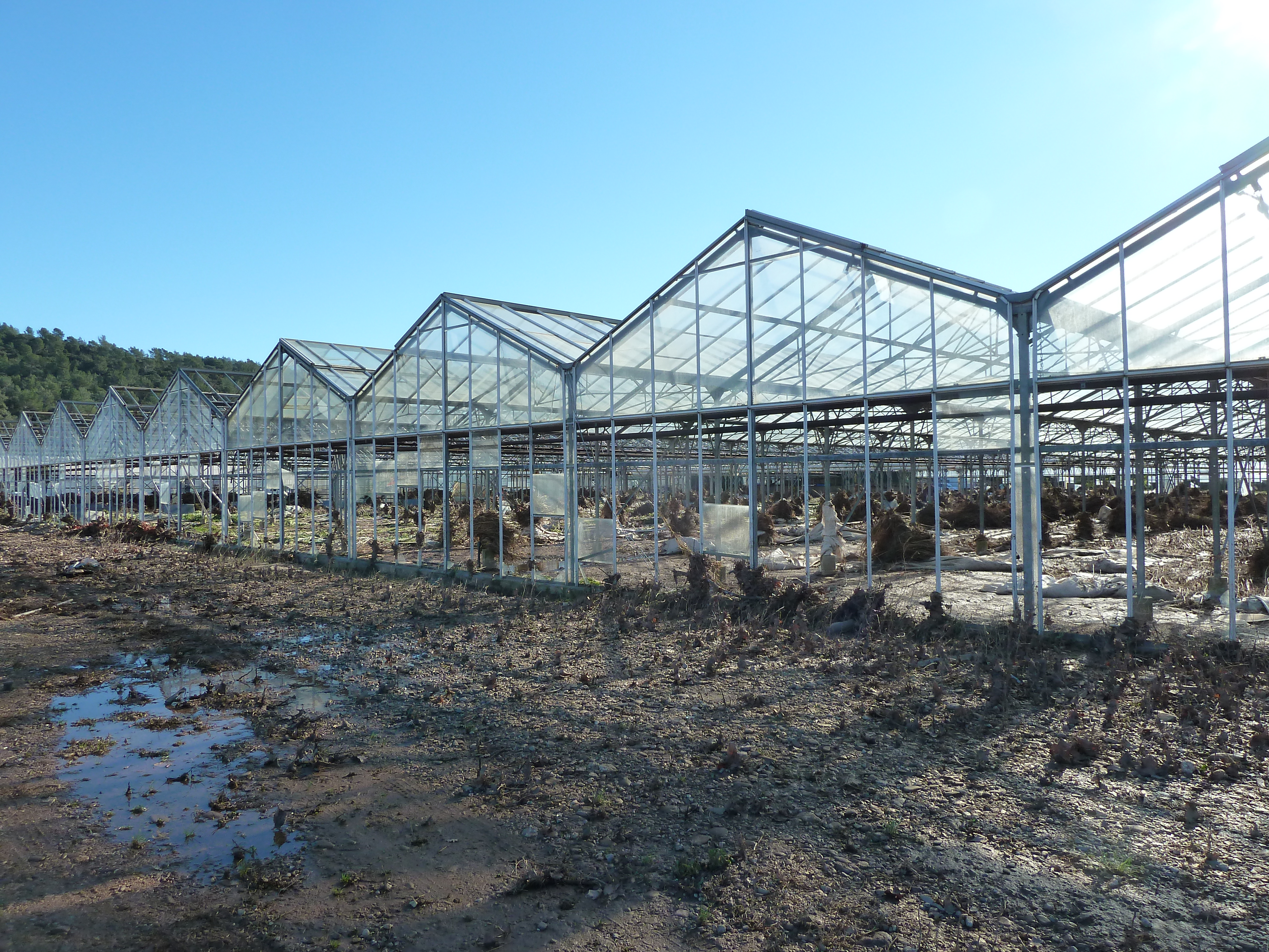 2014 floods in Var